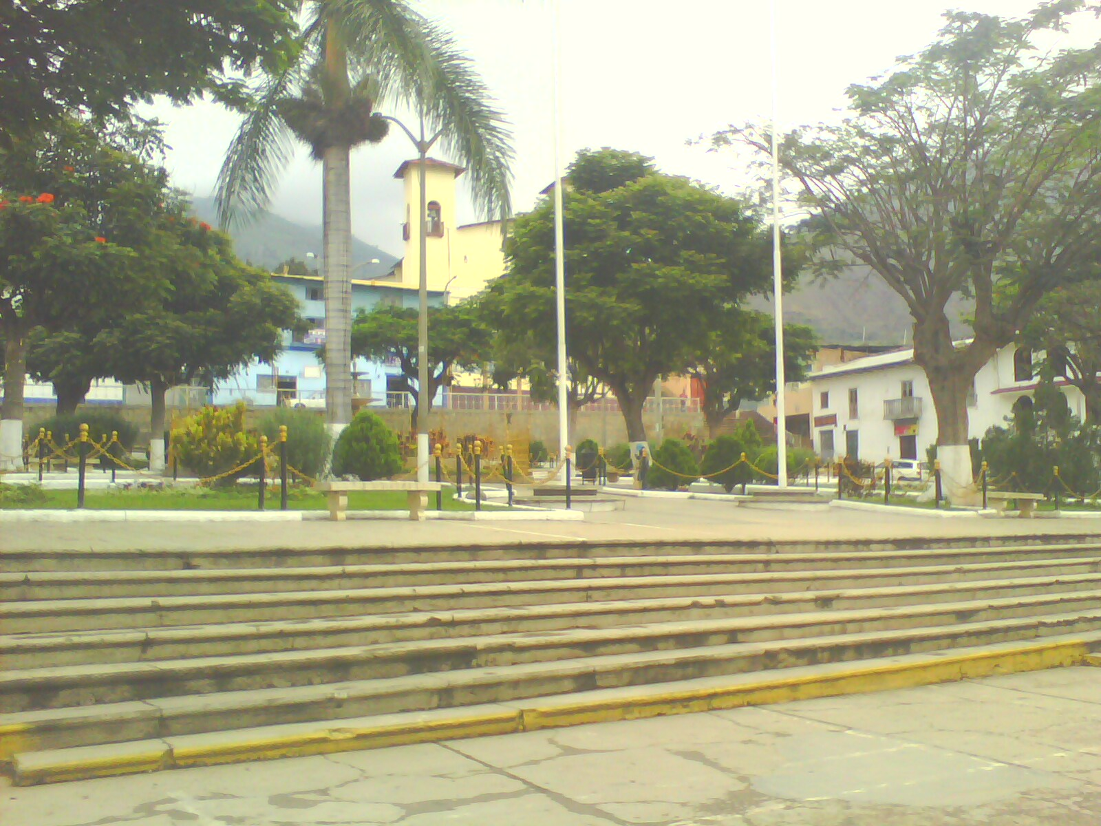 Parte inferior de la plaza de armas de Cascas, frente a la municipalidad provincial Gran Chimú.